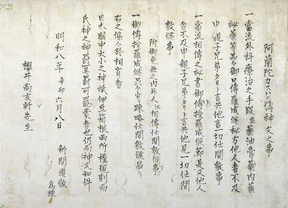 Pledge by a Japanese disciple to his medical teacher to keep the teachings of Caspar about pharmaceutical oils, plasters, etc. absolutely secret. Written by Shinma Michitaka and adressed to his master Sakurai Naotomo in 1771. Caspar Schamberger (1623-1706) was a German surgeon who came to Japan in 1649 and induced a continuing interest in western medical books, pharmaceuticals, treatment methods etc. (Michel-Collection, Kyushu University Medical Library, Fukuoka)